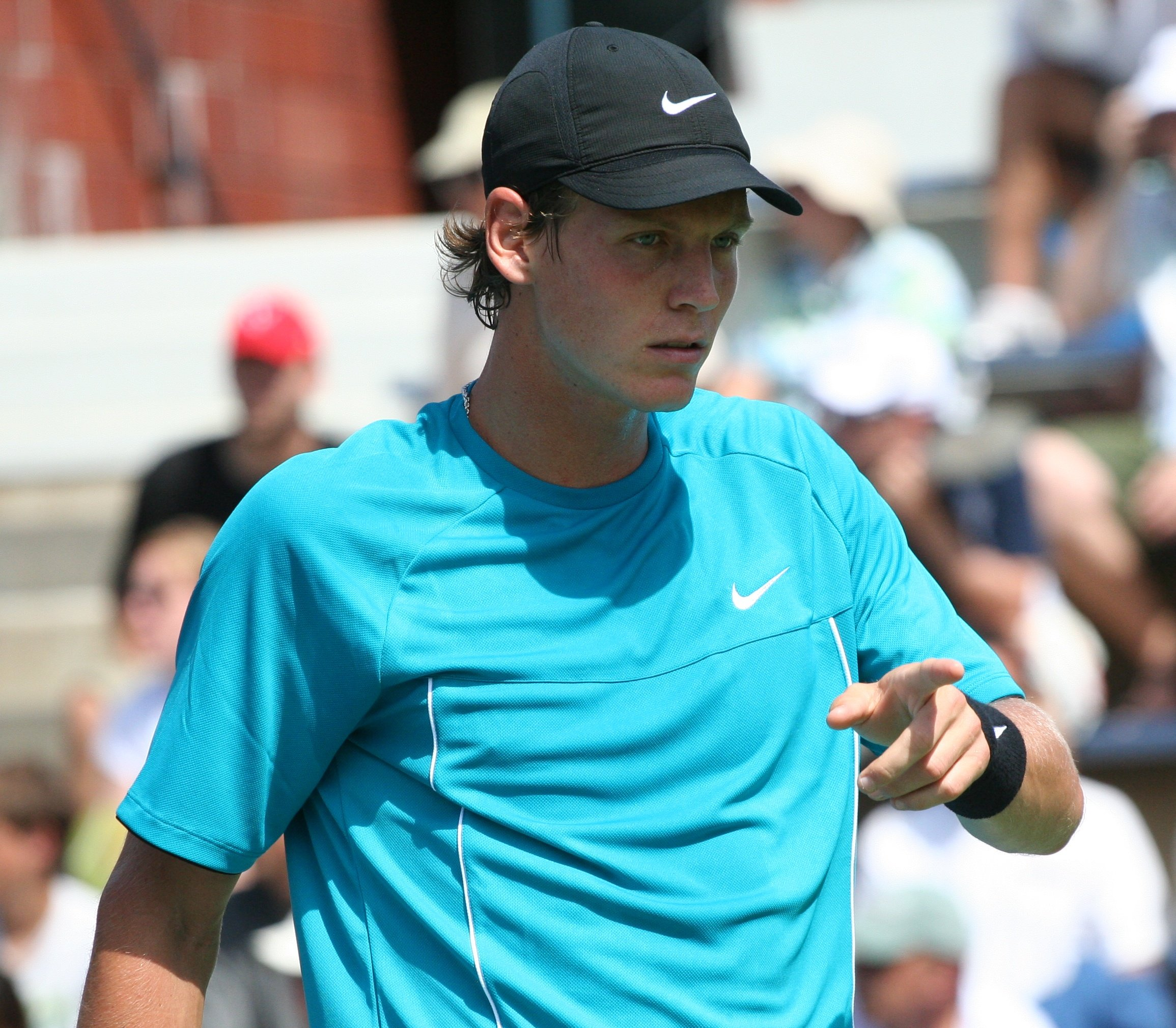 U.S. Open Friday, Sept. 4, 2009